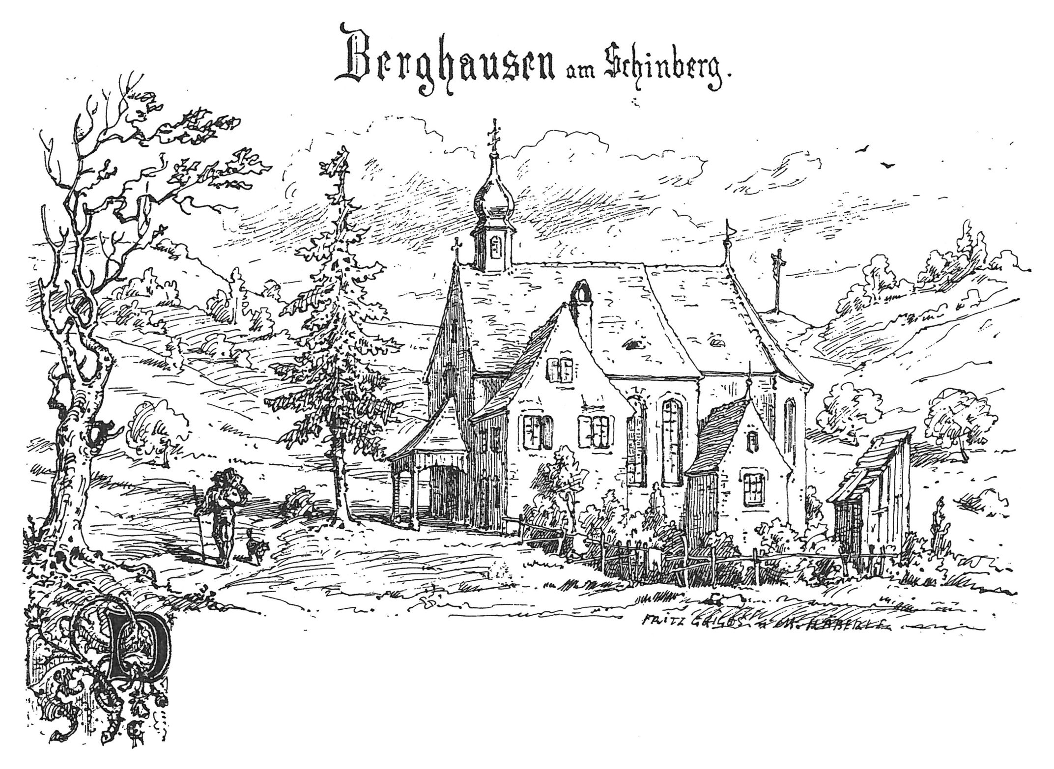 Drawing of Berghauser Kapelle, Ebringen, Baden-Württemberg, Germany, as of 1873